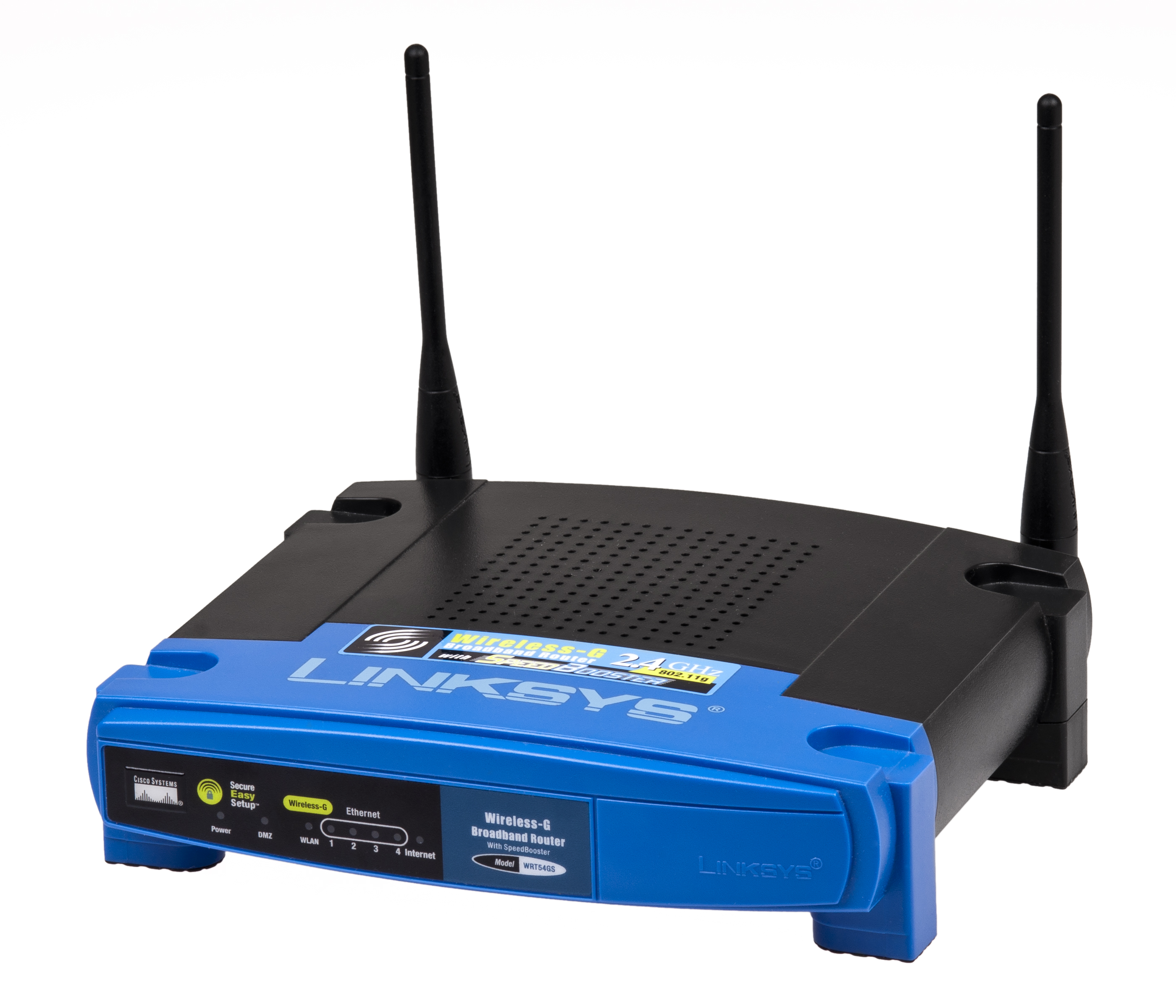 A Linksys wireless-G router, model number WRT54GS.